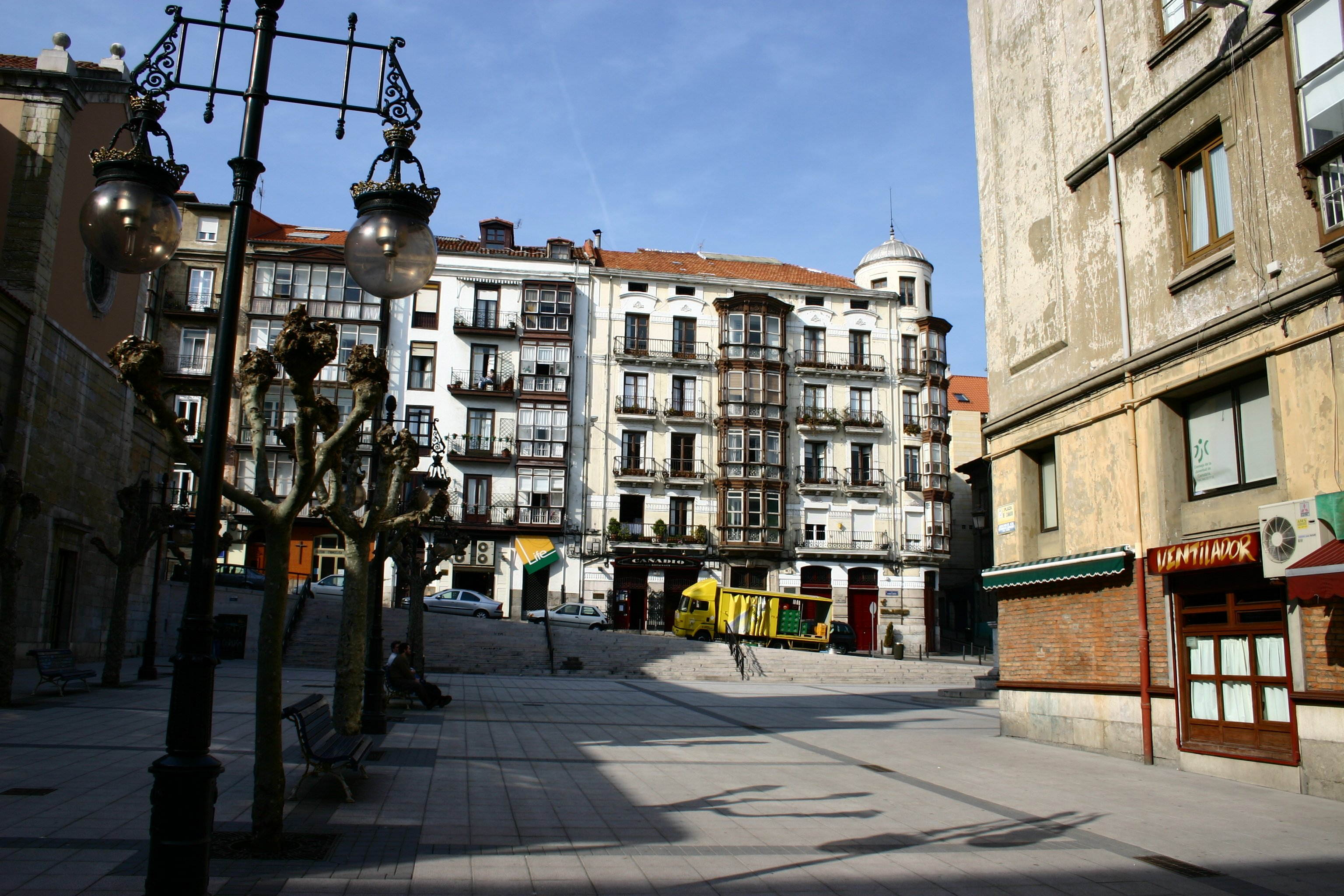 Urban square in Santander